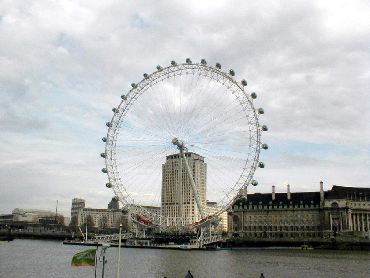 The London Eye different angle. I hereby release this image into the public domain.